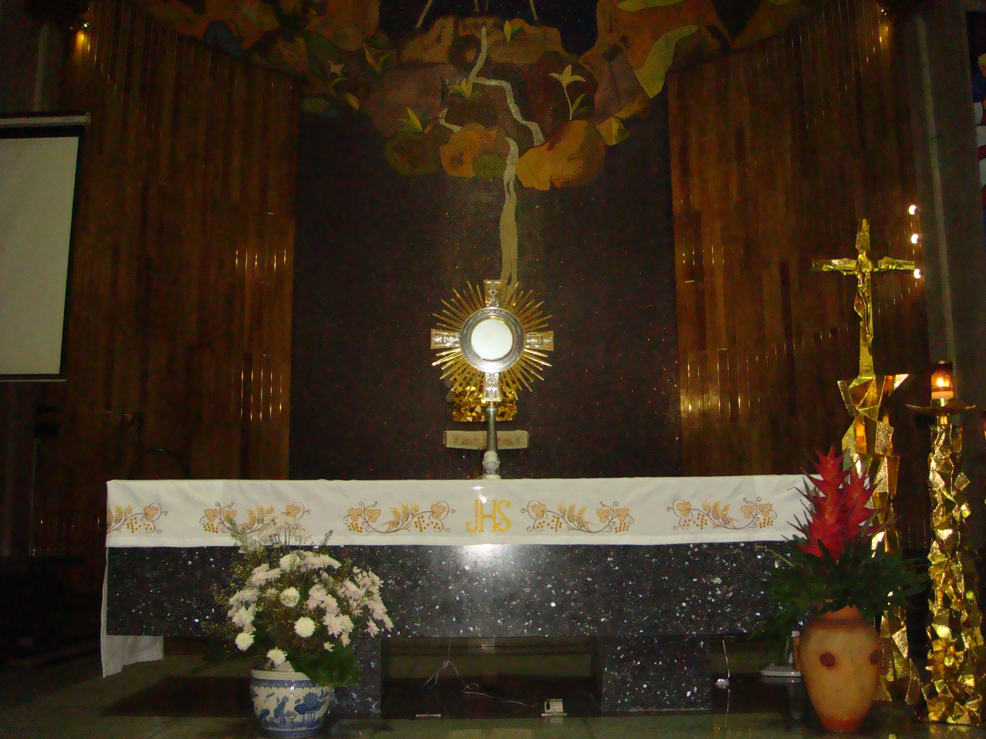 Blessed Sacrament, Sta. Cruz Church, Manila